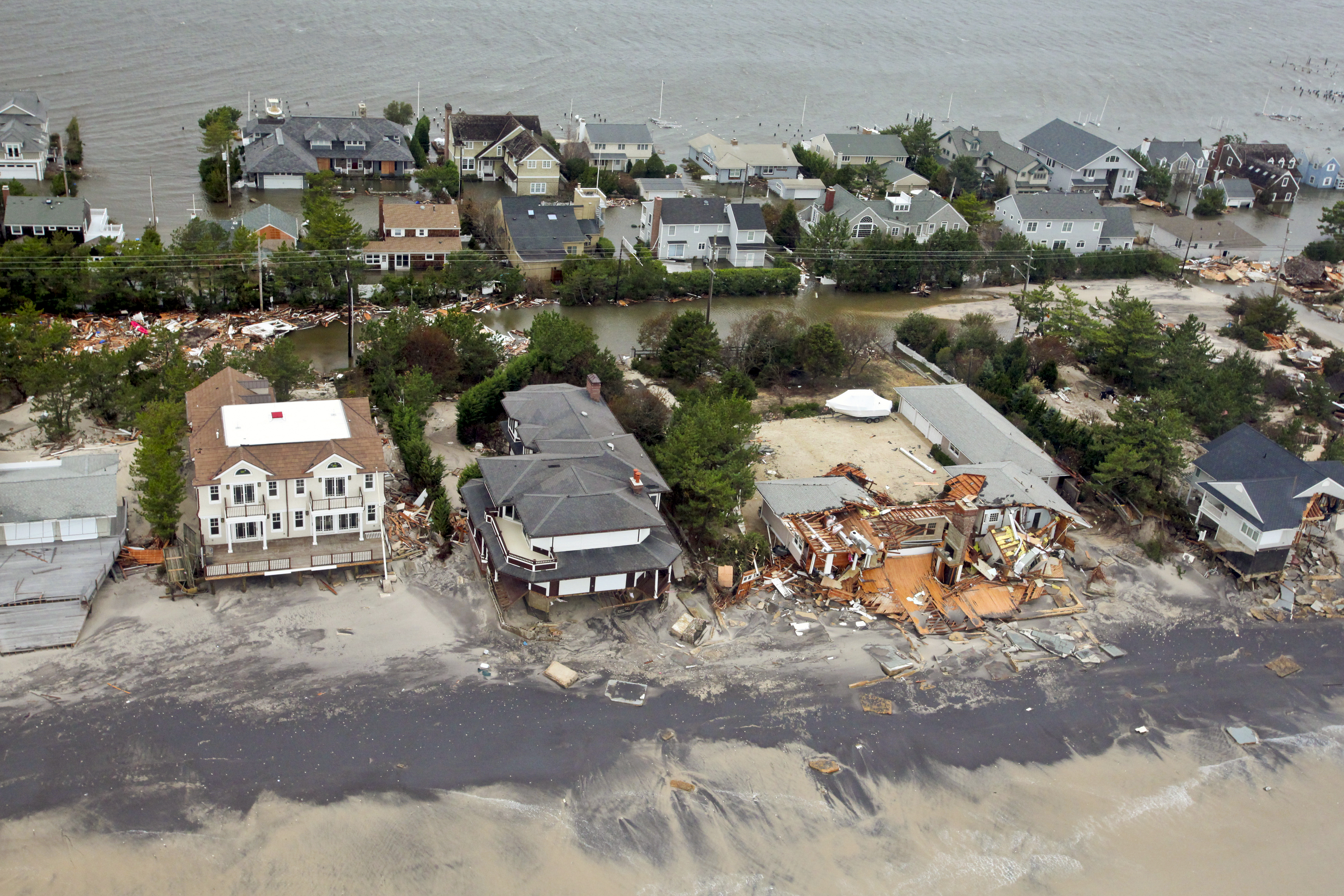 Aerial views during an Army search and rescue mission show damage from Hurricane Sandy to the New Jersey coast, Oct. 30, 2012. The soldiers are assigned to the 1-150 Assault Helicopter Battalion, New Jersey Army National Guard. U.S. Air Force photo by Master Sgt. Mark C. Olsen.